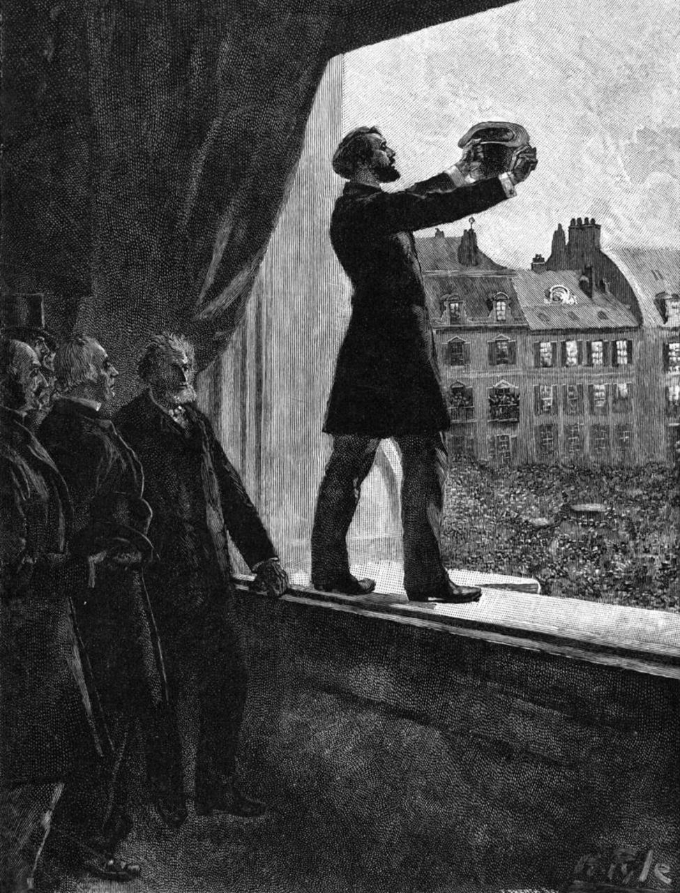 Léon Gambetta proclaiming the Republic of France.